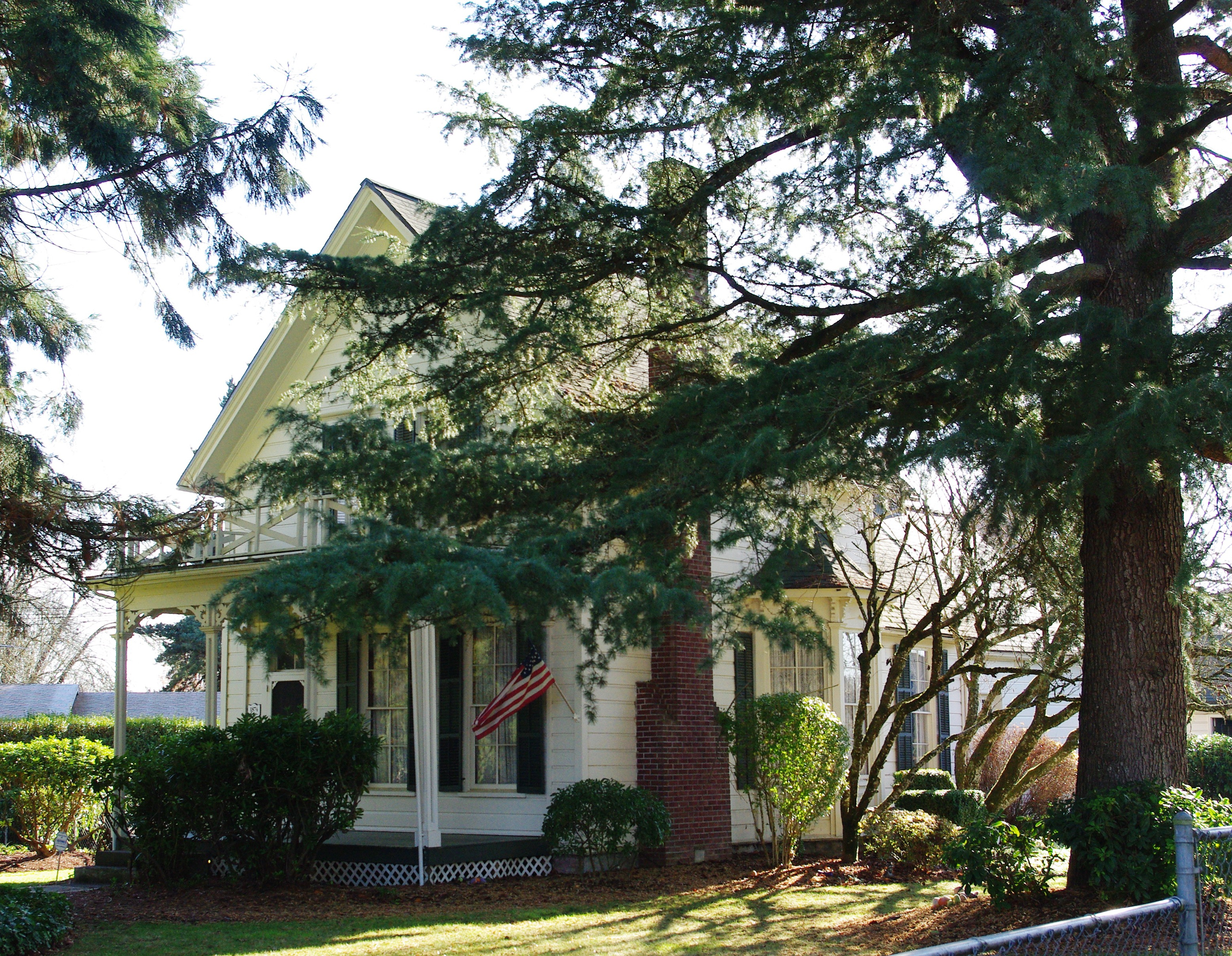 James D. Robb House on the NRHP in Forest Grove, Oregon, USA.